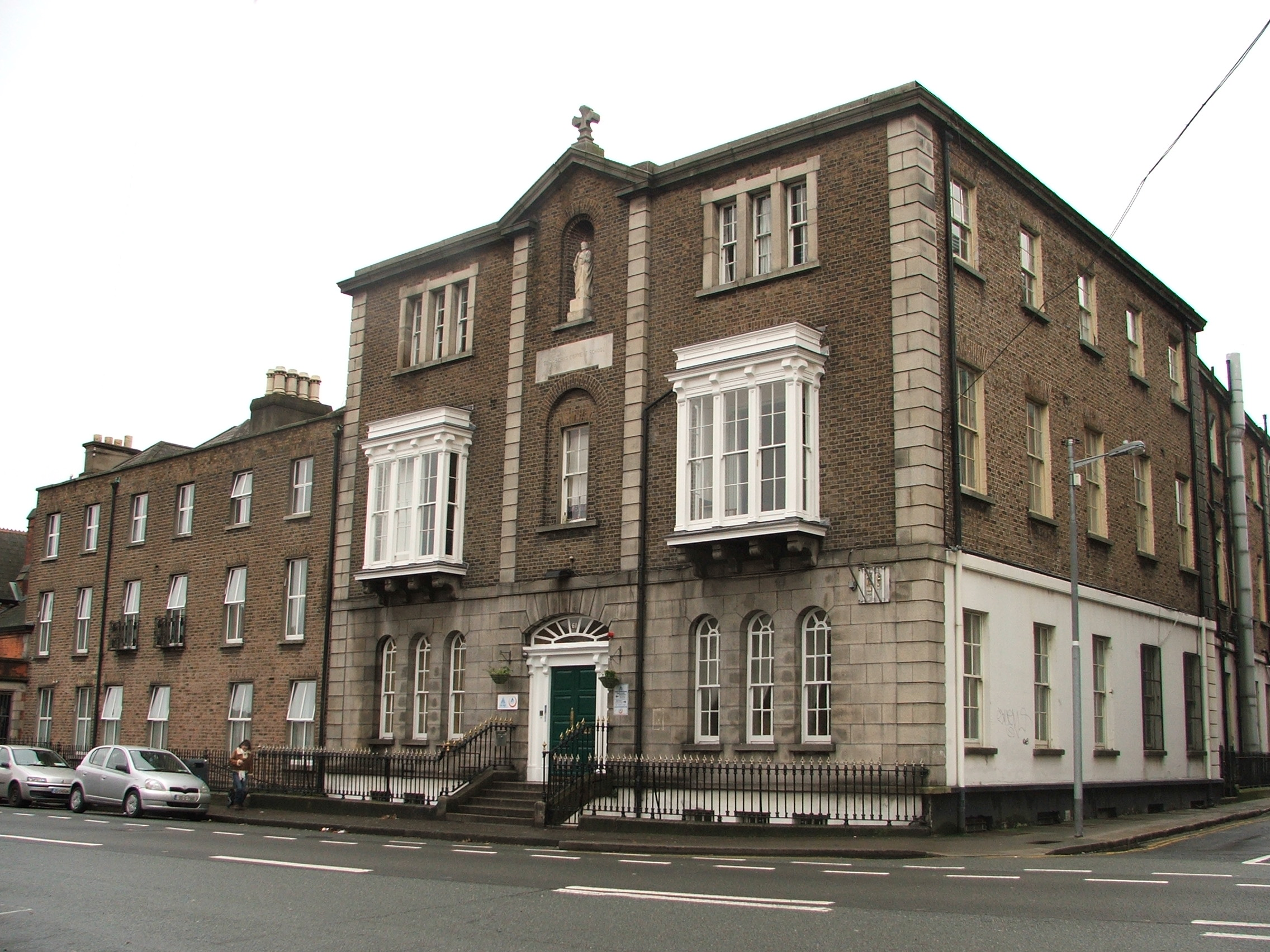 An Oige Hostel Headquarters, Dublin.